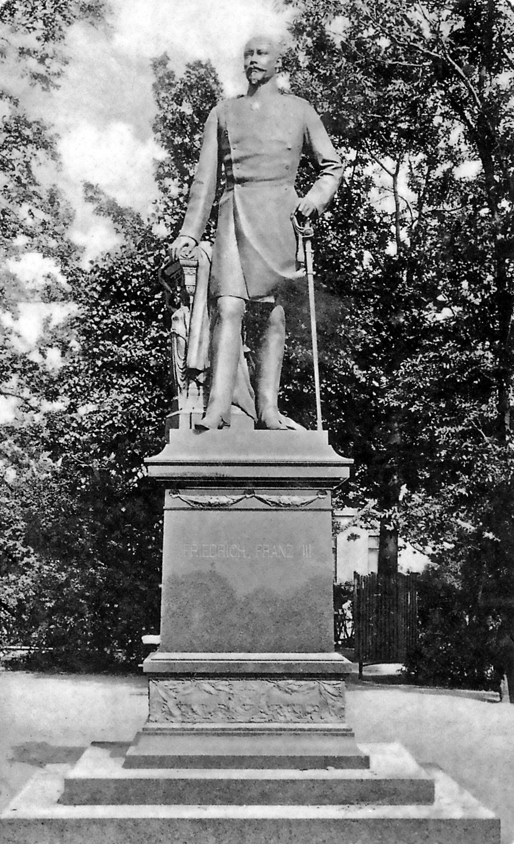 Memorial to Grand Duke Friedrich Franz III. of Mecklenburg-Schwerin, sculpted by Wilhelm Wandschneider, unveiled in 1901, destroyed